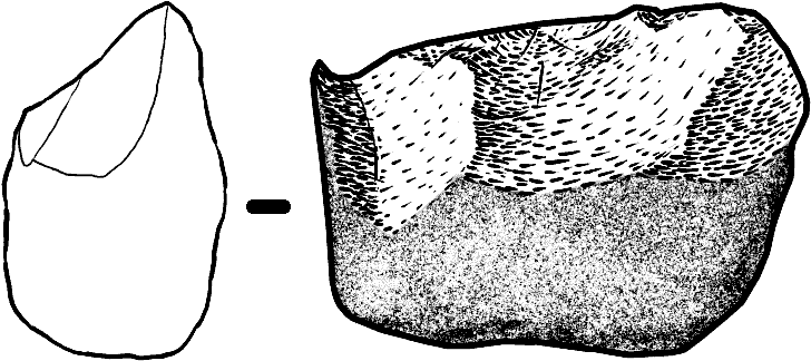 Chopper, lithic tool that comes from the pleistocene site of Dmanisi (Georgia). Its age is estimated in 1,850,000 years old